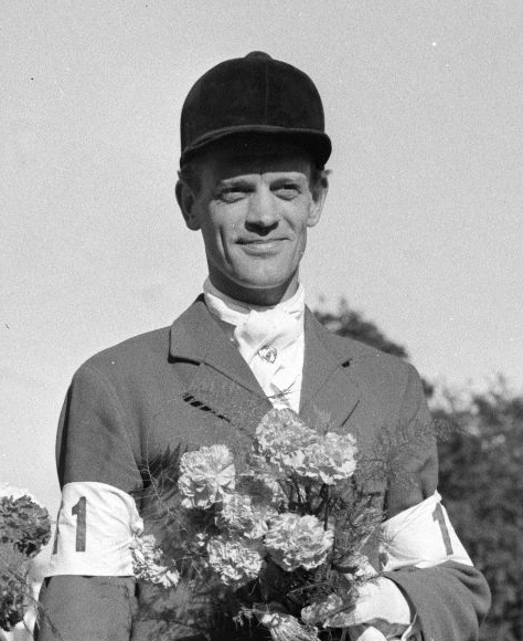 Photograph of the German medalist, equestrian Wilhelm Büsing (1923–) at Helsinki Olympic games.